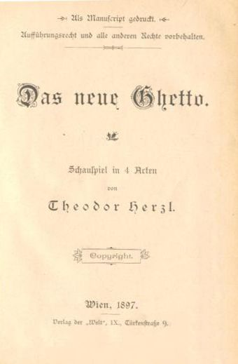 Frontpage of Theodor Herzl's (1860-1904) book Das neue Ghetto (A New Ghetto).